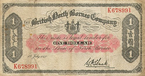 1 dollar